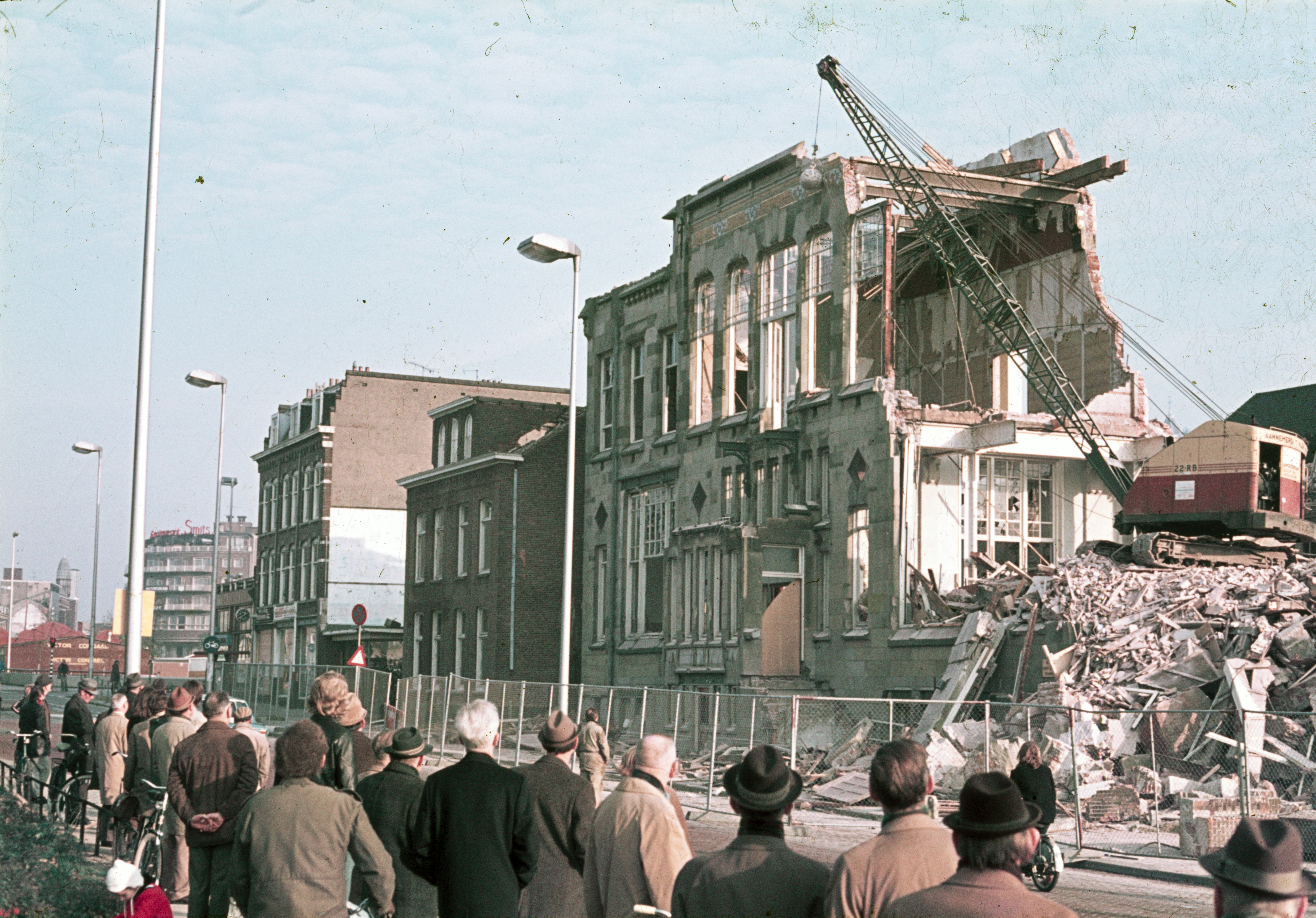 Demolition of the office of "De Utrecht", in Utrecht, the Netherlands. An example of Dutch Jugendstil.